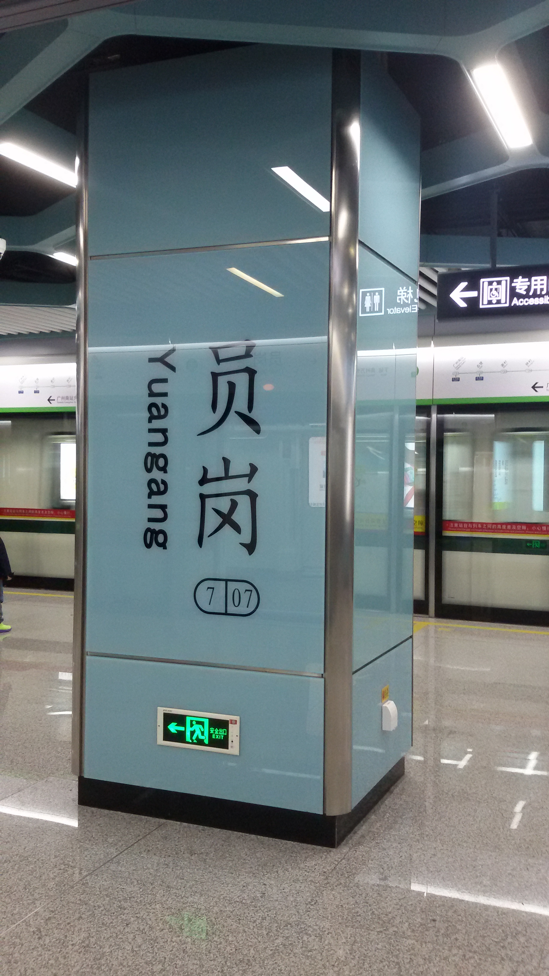 粵語: 廣州地鐵，員崗站嘅柱上啲字。